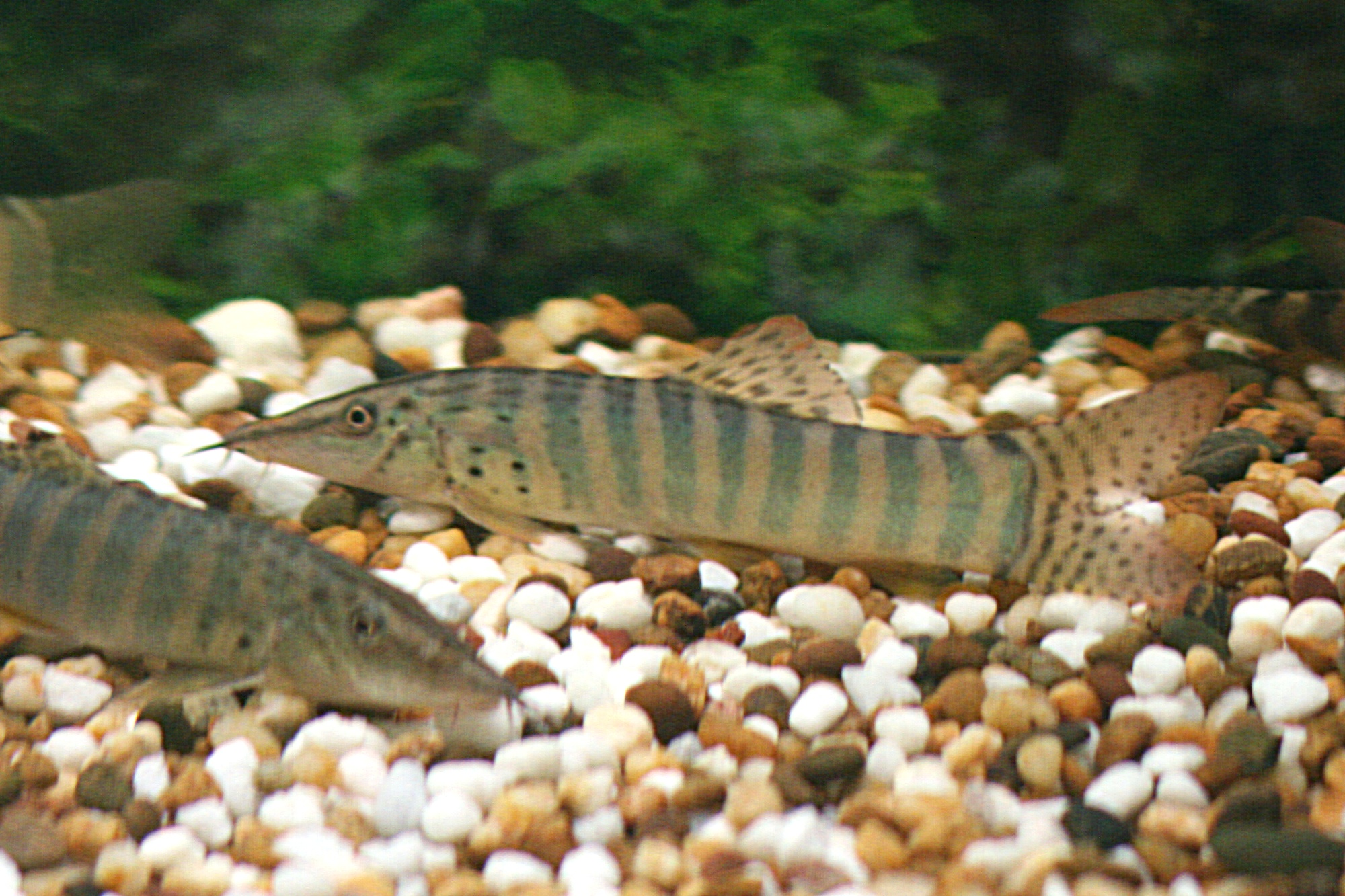 Syncrossus berdmorei. Size about 12cm SL.